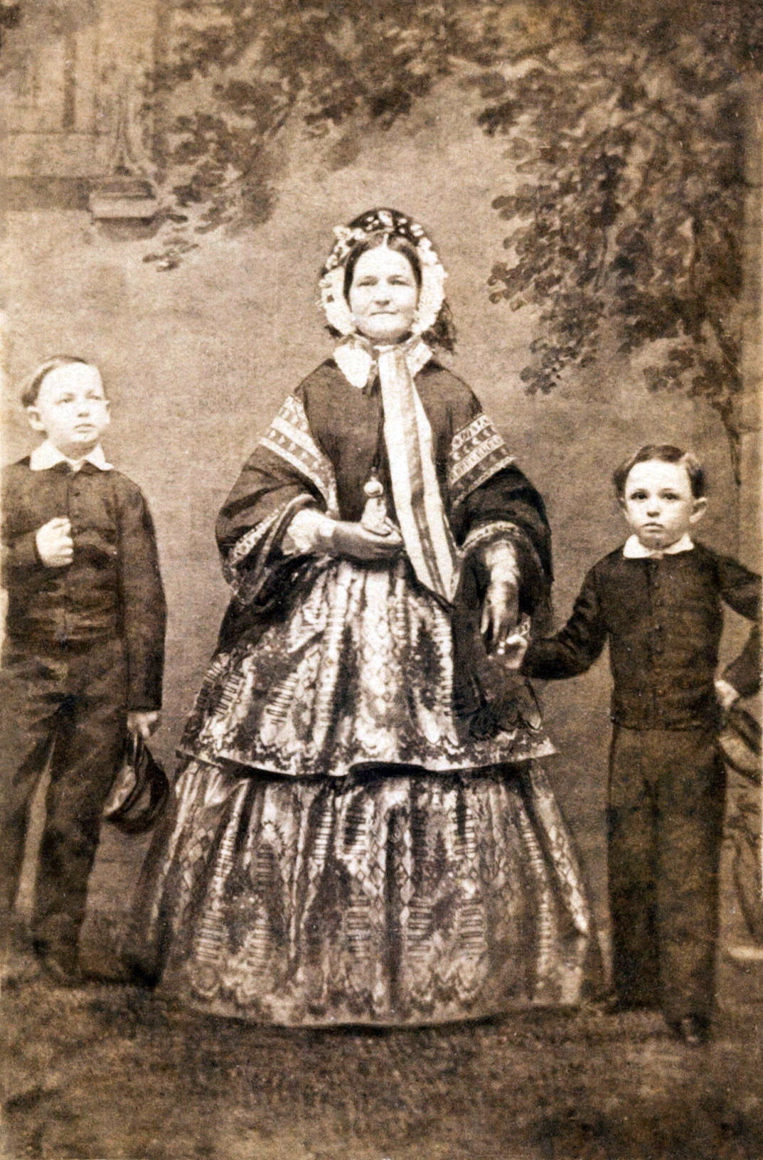 This studio portrait features a well-dressed Mrs. Lincoln holding young Tad's hand while Willie stands to the left, hat in hand.